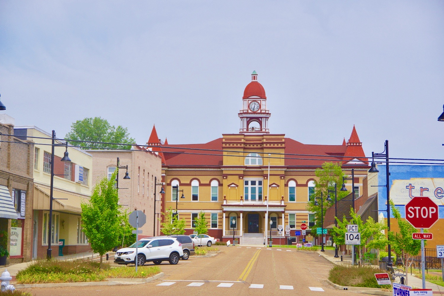 Looking north along College Street (State Route 367) in Trenton, Tennessee, United States. The Gibson County Courthouse rises in the distance.